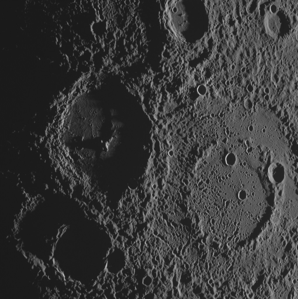 Rodin crater (right) and Ts'ai Wen-Chi crater (left) on Mercury. MESSENGER Narrow Angle Camera image. Center Emission Angle: 31.720313778722 Center Incidence Angle: 86.960780761642 Center Latitude: 23.046102325879 Center Longitude: 338.55432710283 Center Phase Angle: 118.67994145658